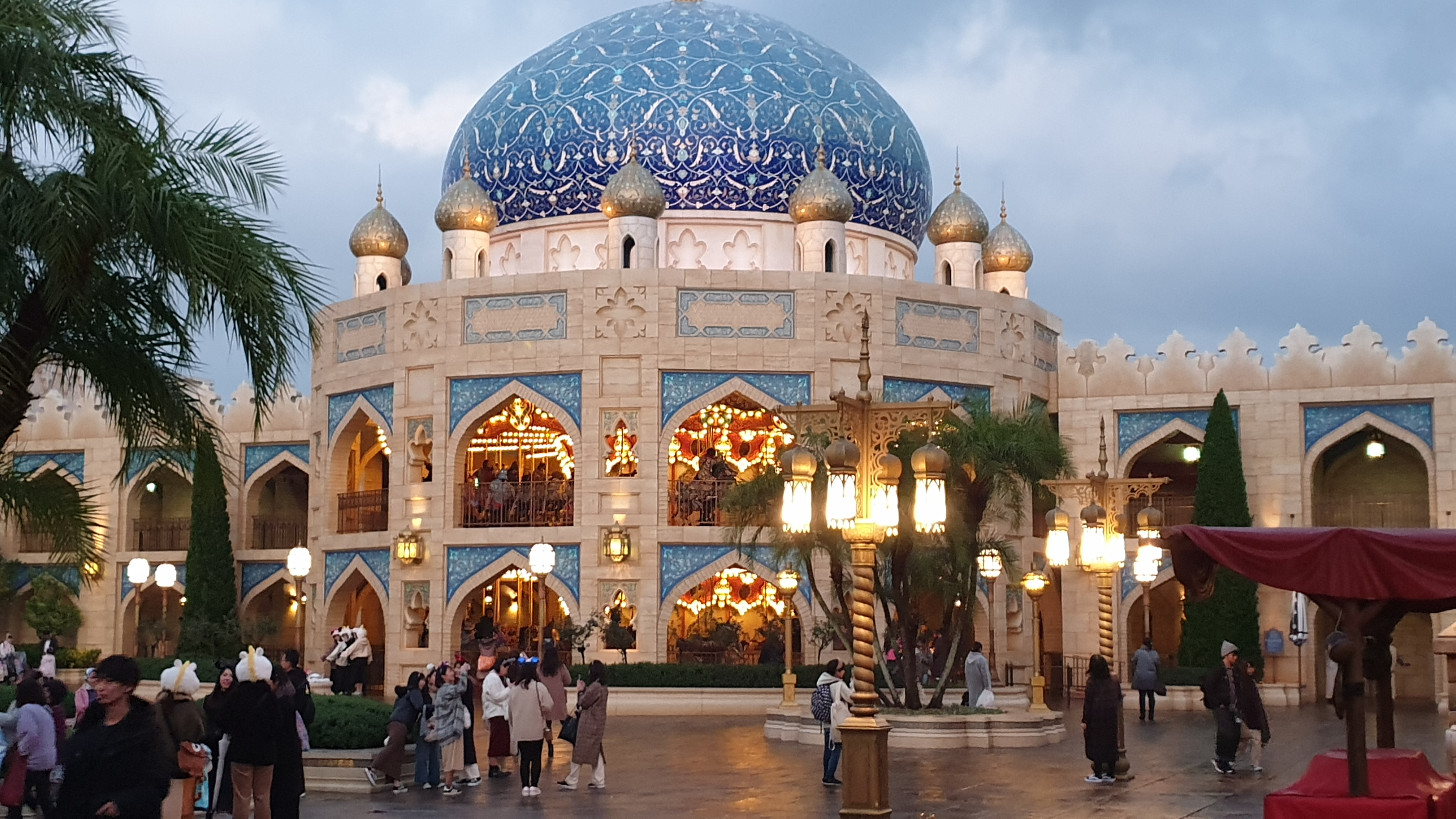 Tokyo DisneySea Arabian Coast (Dec 2019)